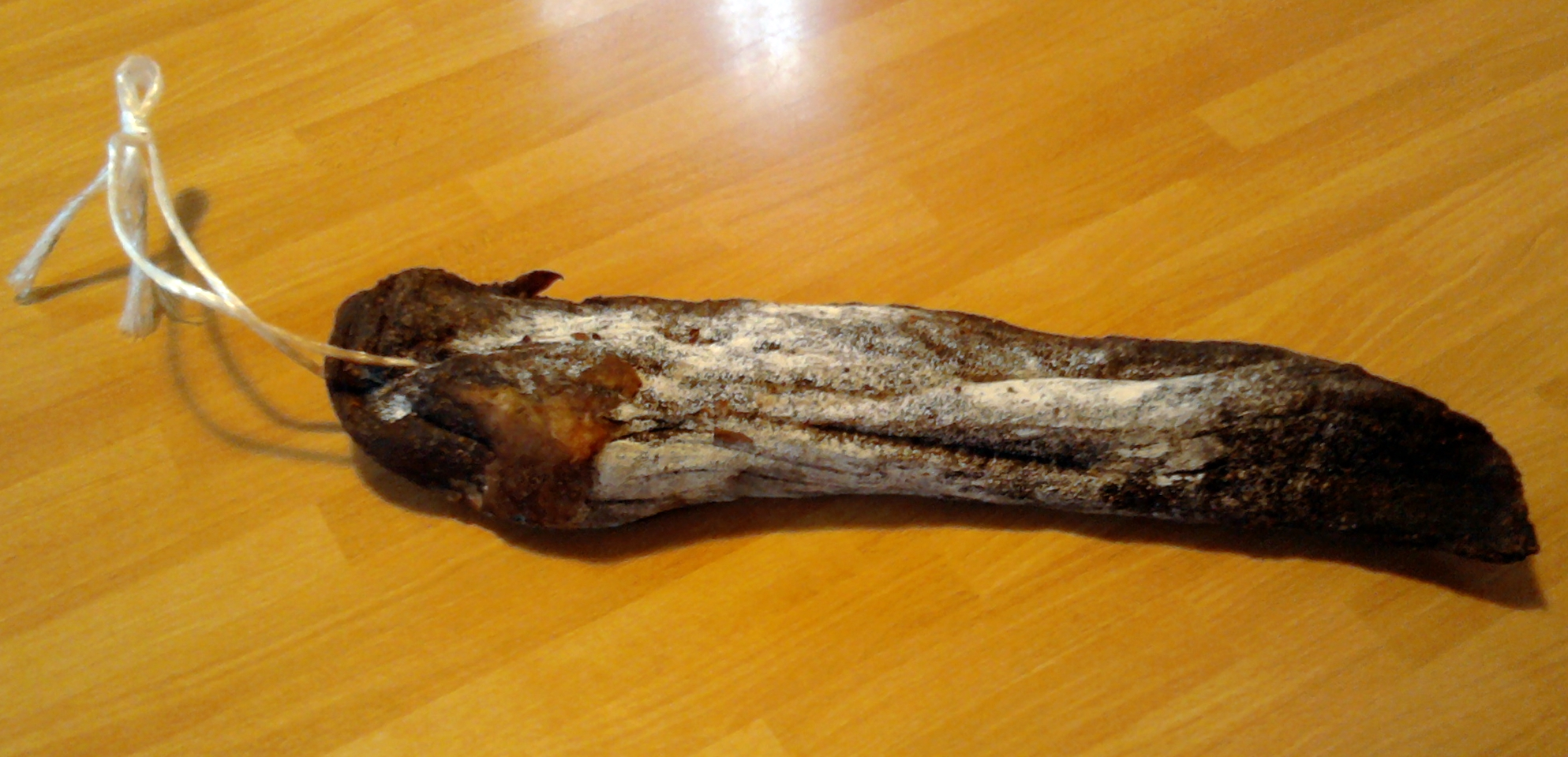 Slinzega, traditional Valtellina valley food